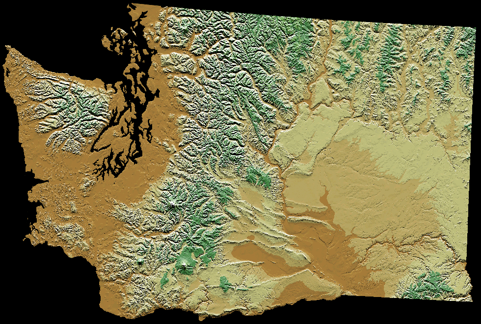 Digital Elevation map of Washington state.